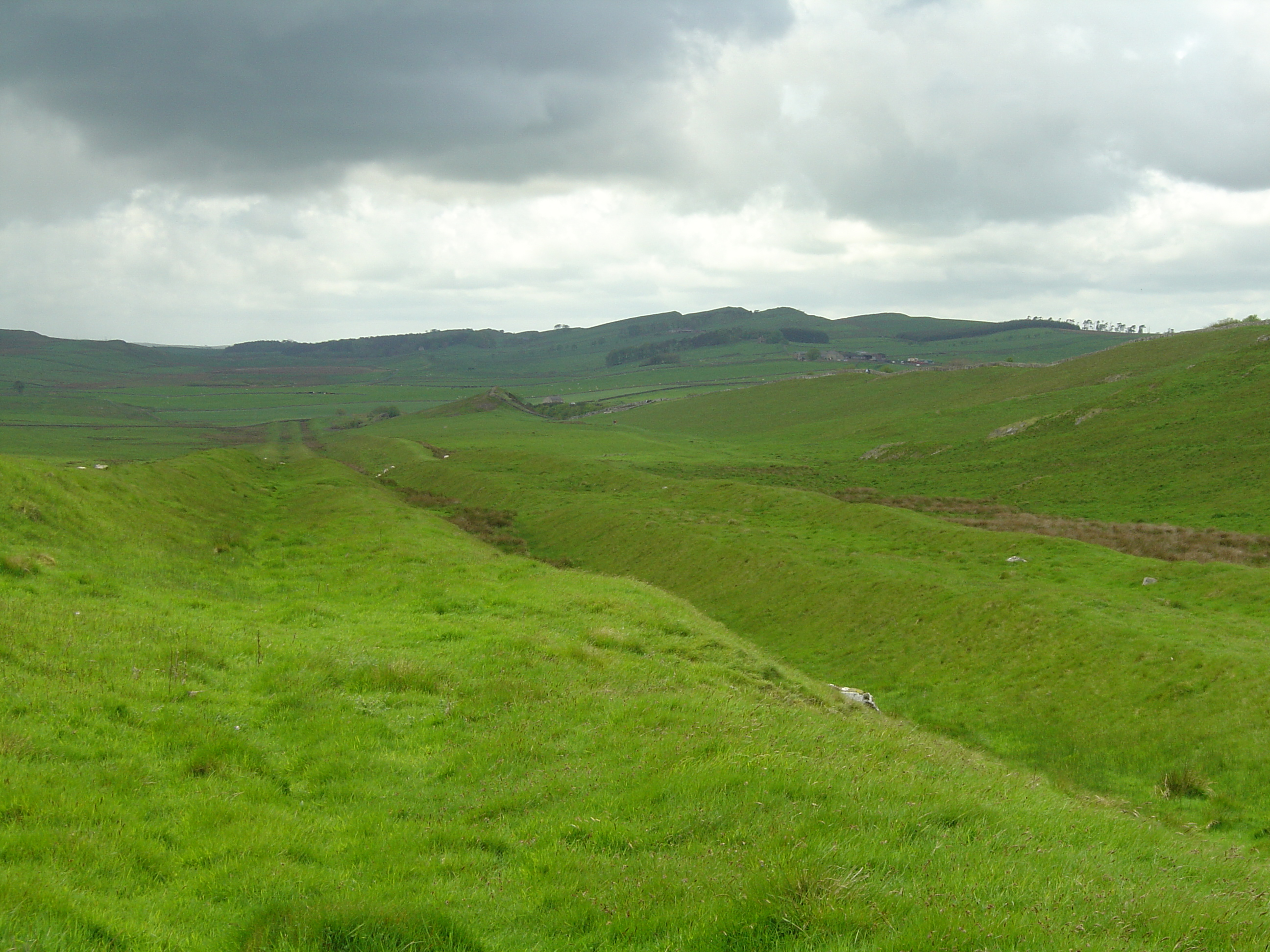 Vallum at Hadrian's Wall, near Milecastle 42 looking west. The wall can be seen on the ridge to the right.